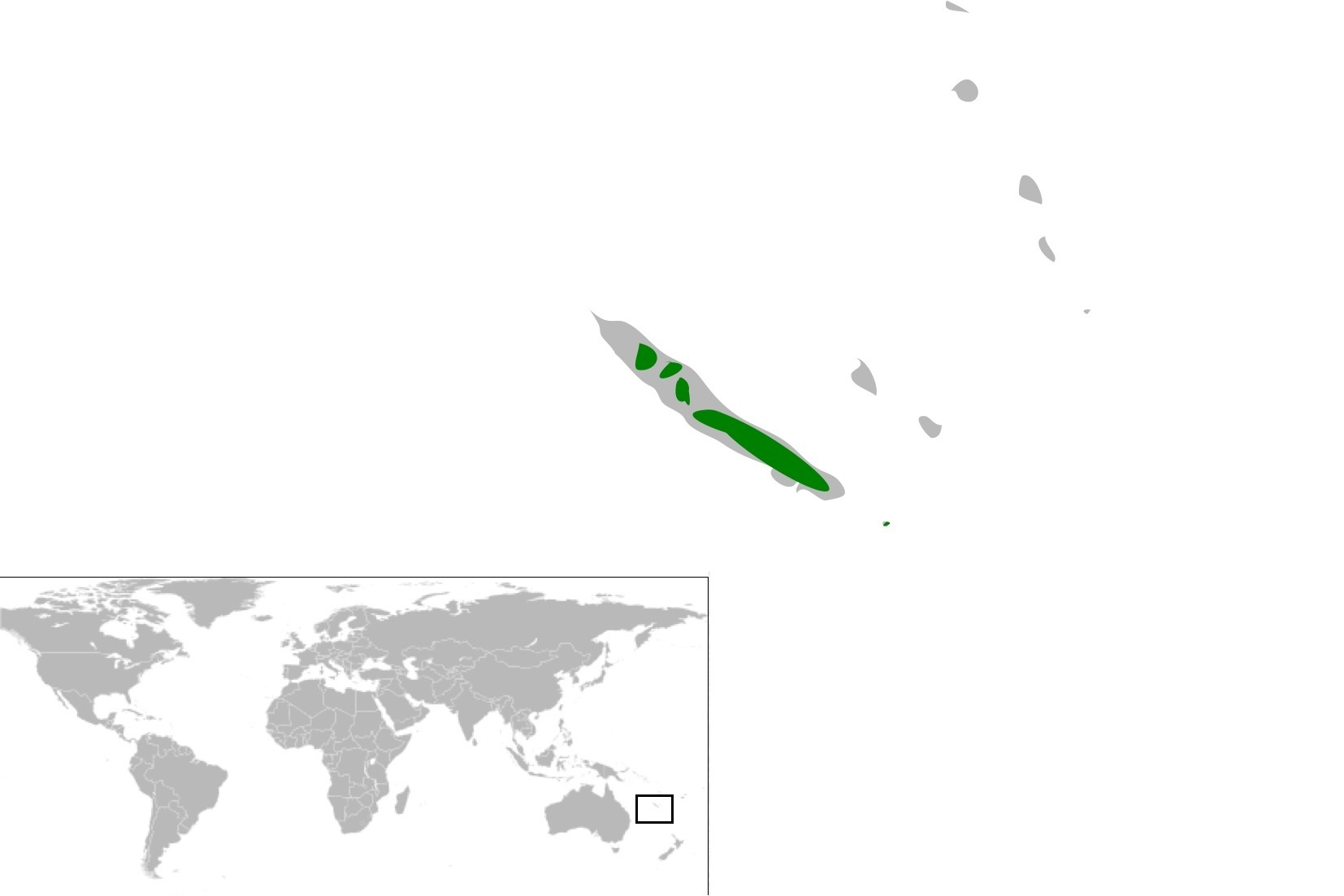 Range map for Coracina analis Breeding resident